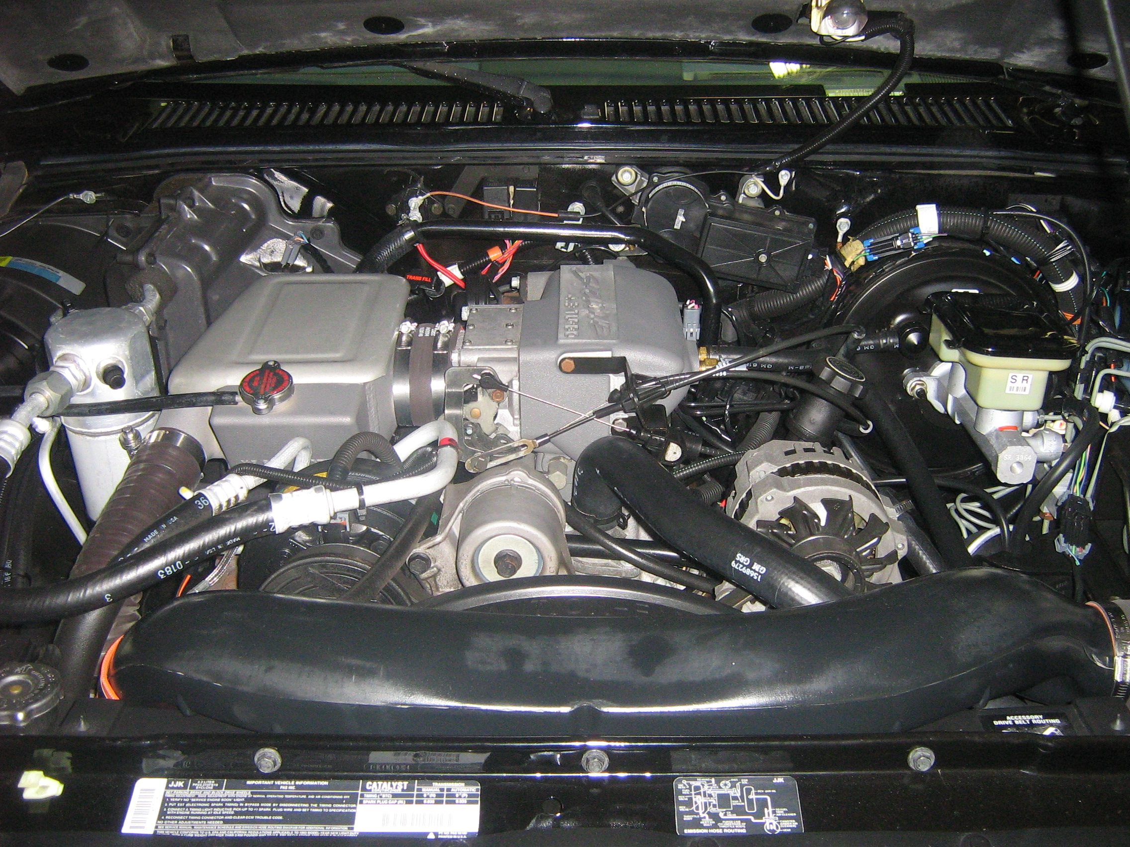 1993 GMC Typhoon Turbo 4.3L V6. This was owned Cale Huse (the hockey player).